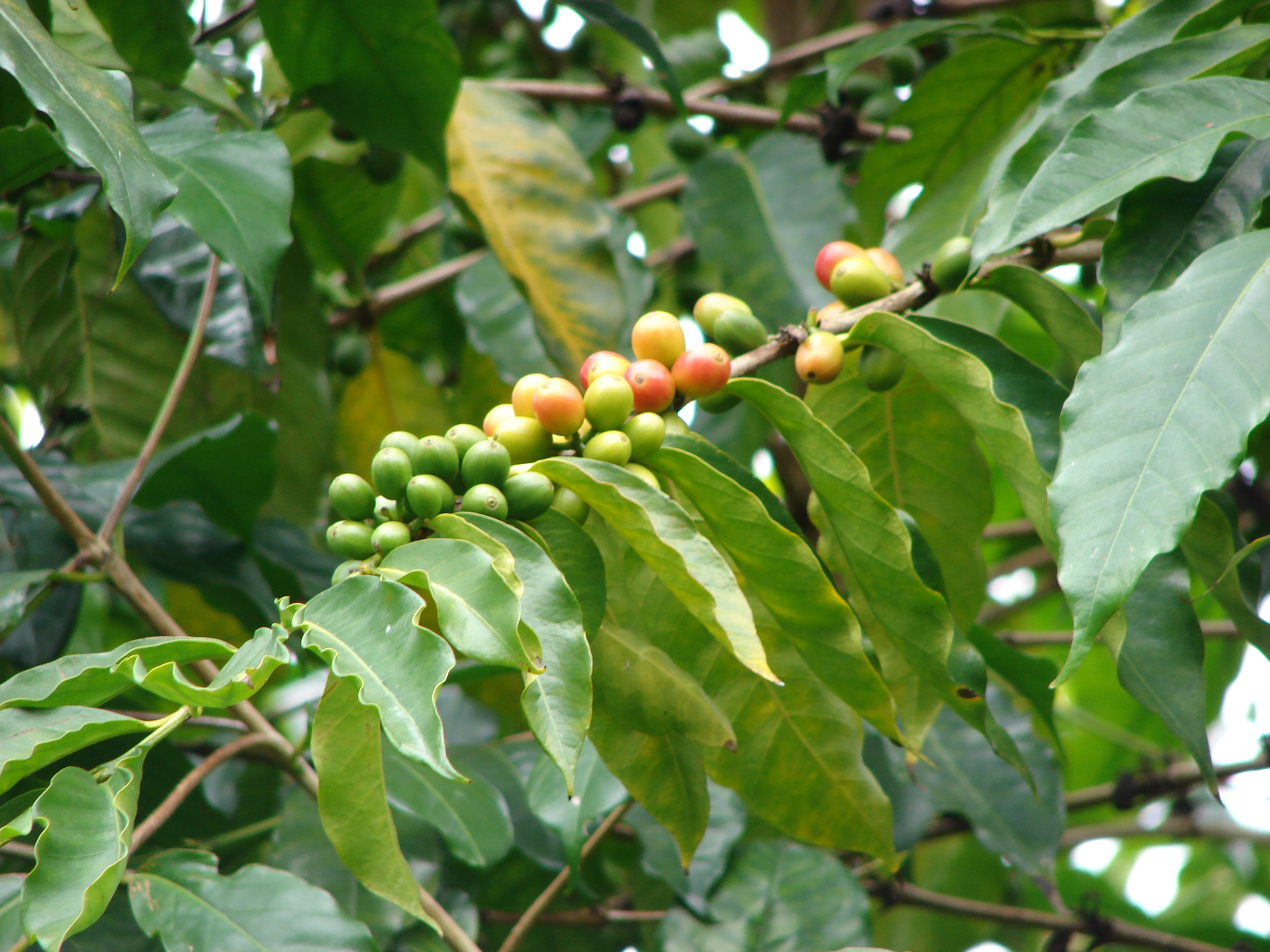 Coffea arabica (fruit). Location: Maui, Kula